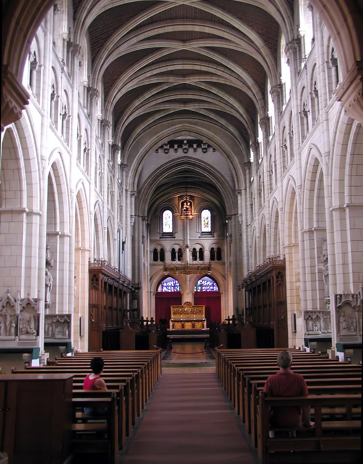 The nave of Buckfast Abbey. Taken by Adrian Pingstone in July 2003 and released to the public domain.